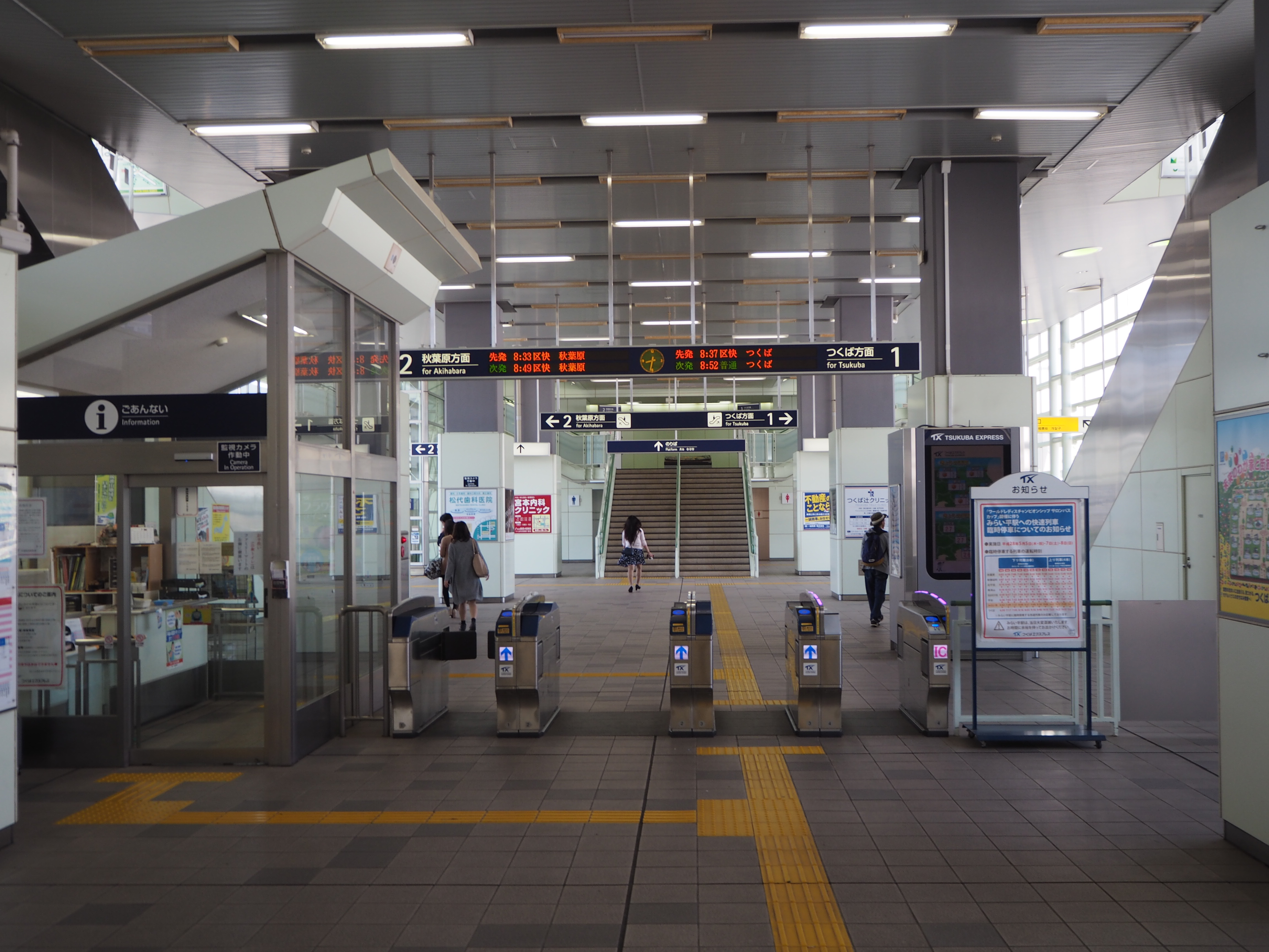 Ticket gate of Kenkyū-gakuen Station